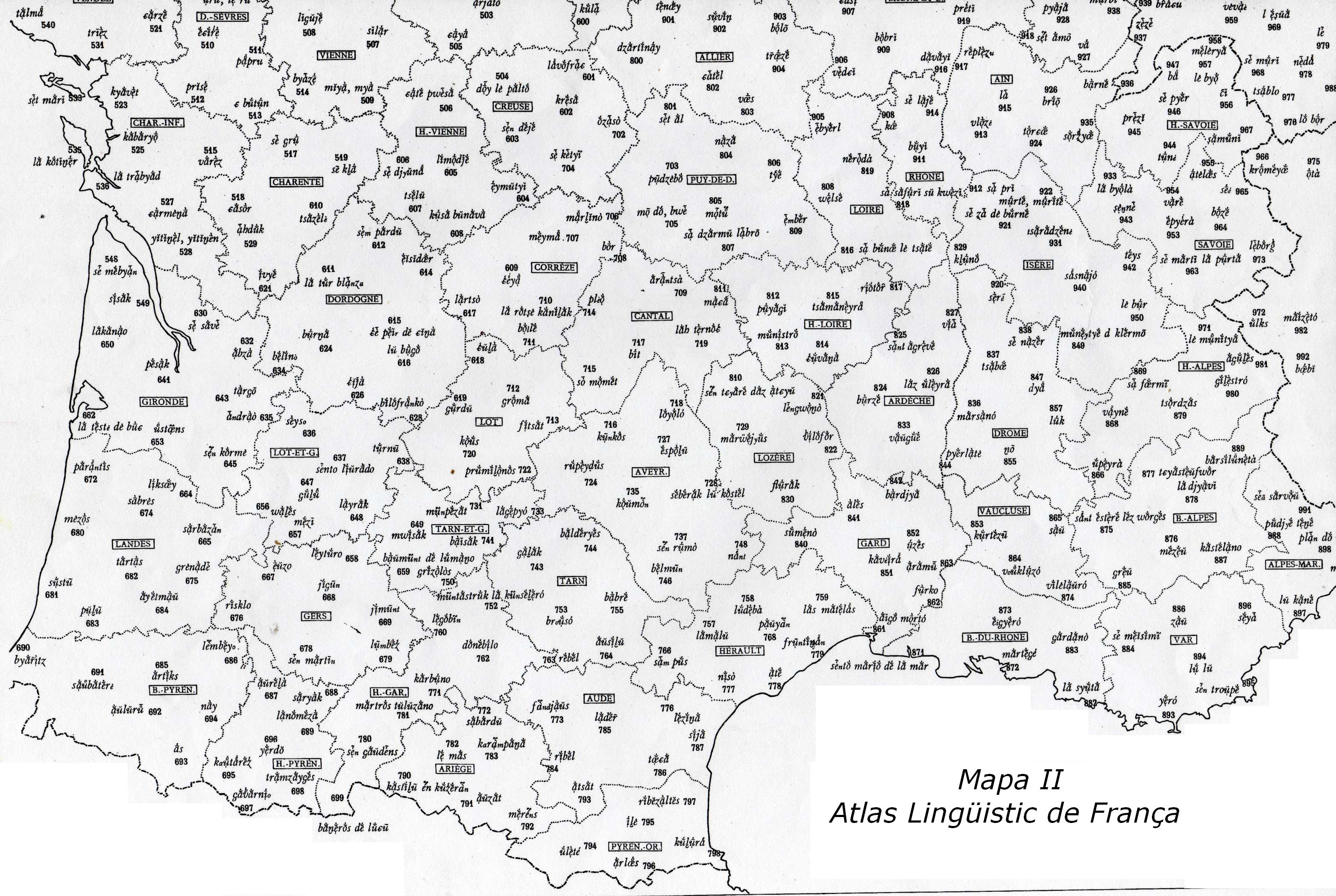 Original names (phonetic alphabet) of the Occitan points of the ALF